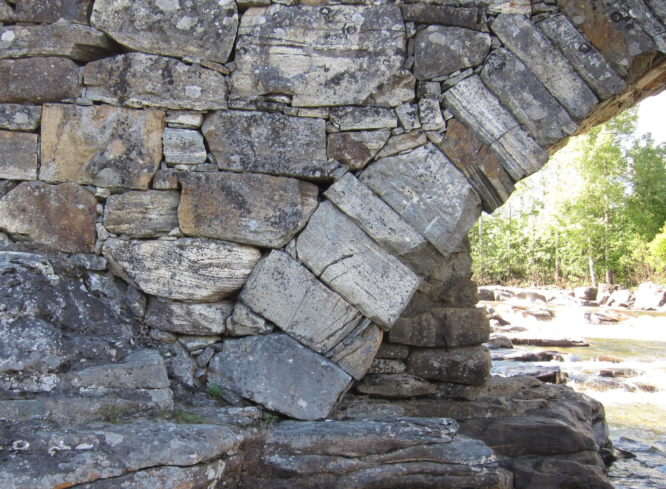 Details of arch (dry stone masonry), Lunde bridge, Etnedal, fylkesvei 251